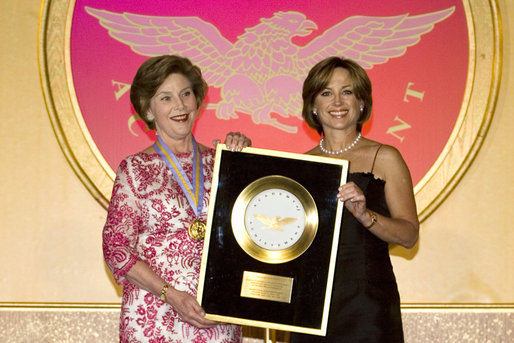 Dorothy Hamill, 1976 US Gold Medal Olympic Champion, presents Mrs.Laura Bush the Academy of Achievement Golden Plate Award Friday, June 22, 2007, during a ceremony in Washington, D.C. Mrs. Bush was presented the award for her achievements in Public Service, Friday, June 22, 2007. President George H.W. Bush received the Golden Plate Award in 1995.